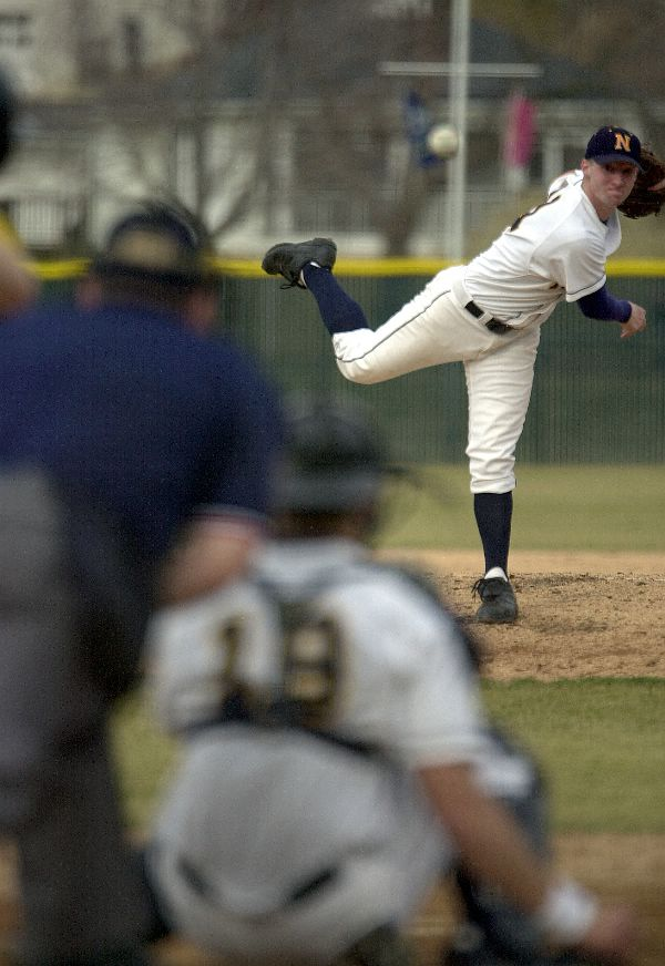 Caption: 040302-N-9693M-004 Annapolis, Md. (Mar. 2, 2004) - Midshipman 4th Class Burgess Nichols throws a pitch during the U.S. Naval Academy season home opener against University of Maryland Baltimore County (UMBC). The Midshipmen rallied in the 8th inning from a 4-2 deficit to outscore the Retrievers 5-4 and improved their record to 2-9. U.S. Navy photo by Photographer's Mate 2nd Class Damon J. Moritz. (RELEASED) Source: navy.mil